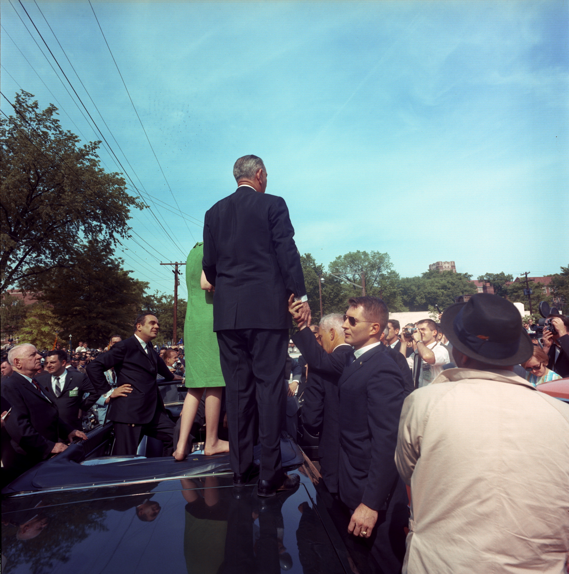 President Lyndon B. Johnson on his poverty tour, Knoxville Tennessee